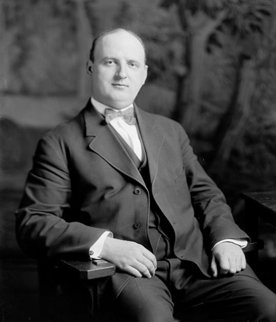 Original caption from source: "Michigan Republican William Wedemeyer was a one-term representative, elected in 1910. After losing his re-election campaign in 1912, he went on an official journey to Panama to inspect the Canal Zone, and while there he either jumped or fell from a boat in the harbor in Colon; his remains were never found. His Congressional biography calls his death accidental, but a contemporary obituary in The New York Times reports that Wedemeyer was extremely upset about losing his race—so upset that he was under 24-hour watch. The paper claims he was able to elude his minders, however, and leapt over the ship's rail to his death."